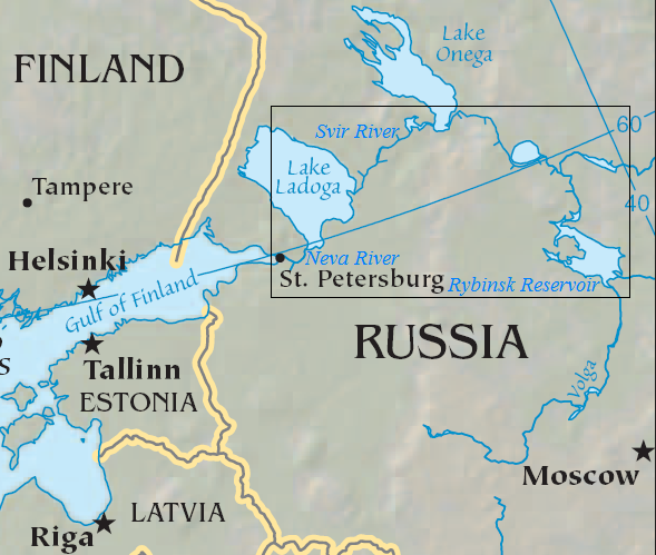 source map modified with additional labels, box Original map cropped from